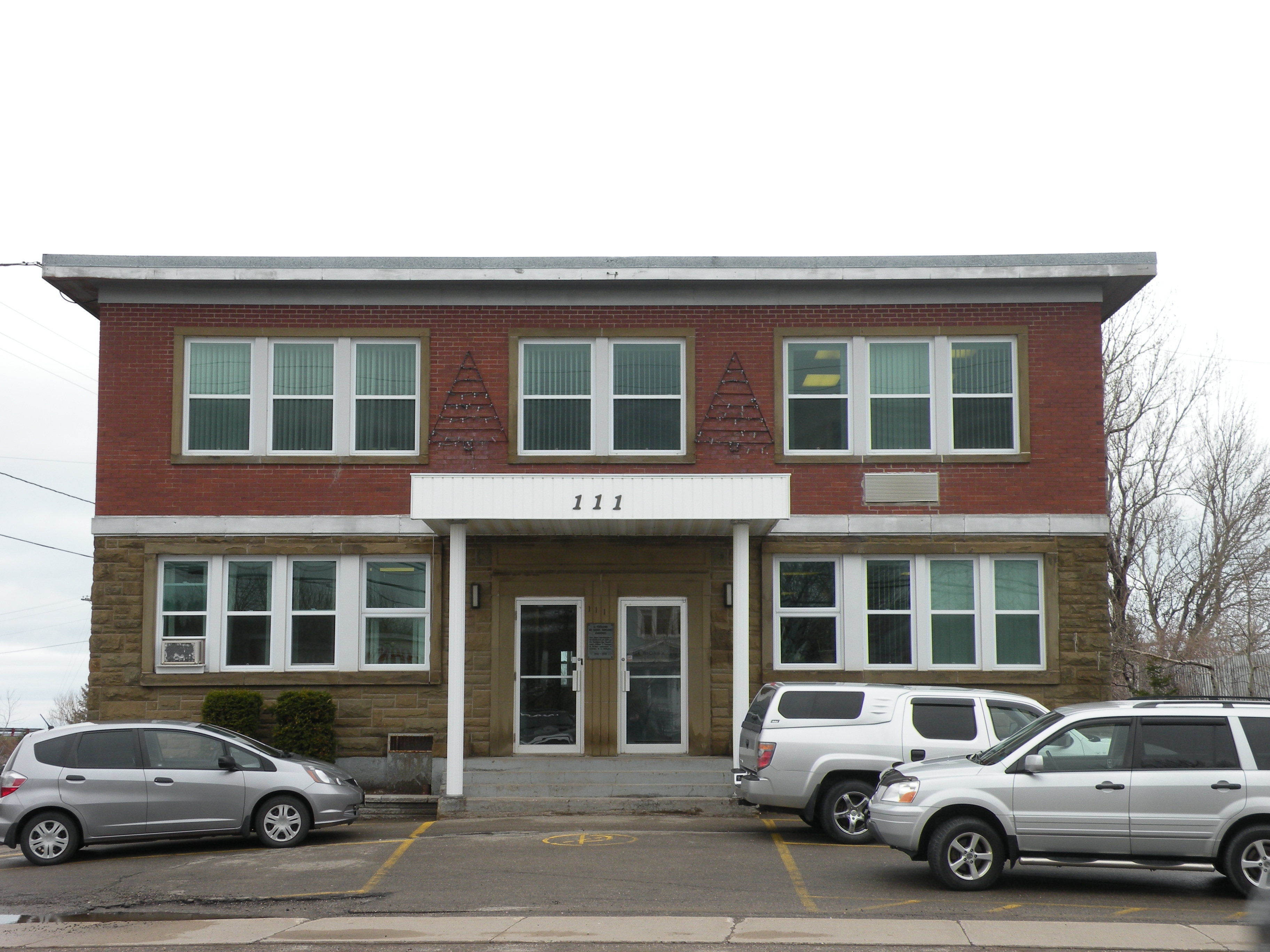 The second headquarter of the Caisses populaires acadiennes in Caraquet, New Brunswick, Canada.